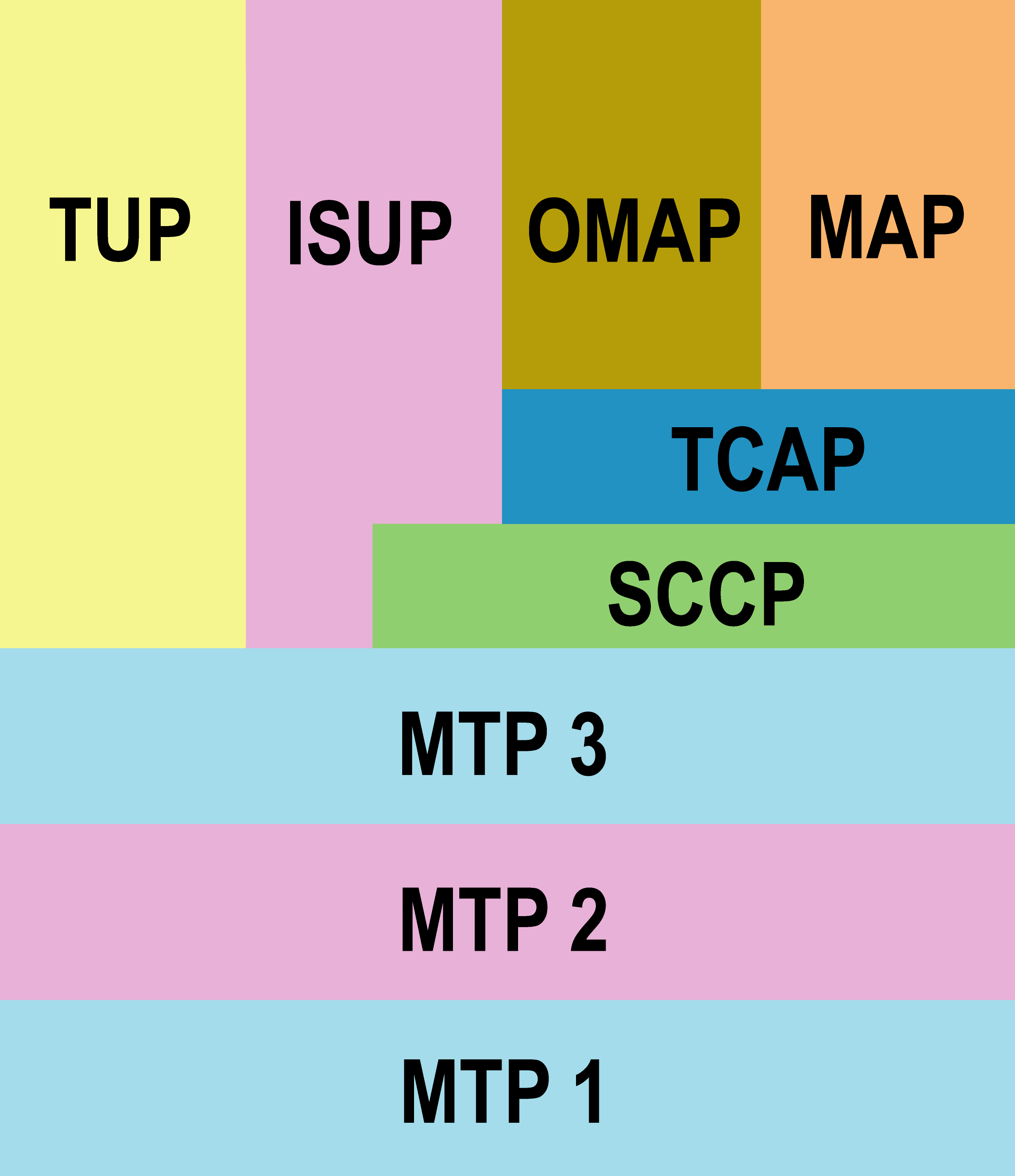 SS7 software layers